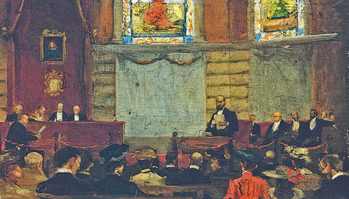 Ramón Menéndez Pidal lecturing before the Real Academia Española (oil painting by his brother Luis Menéndez Pidal)